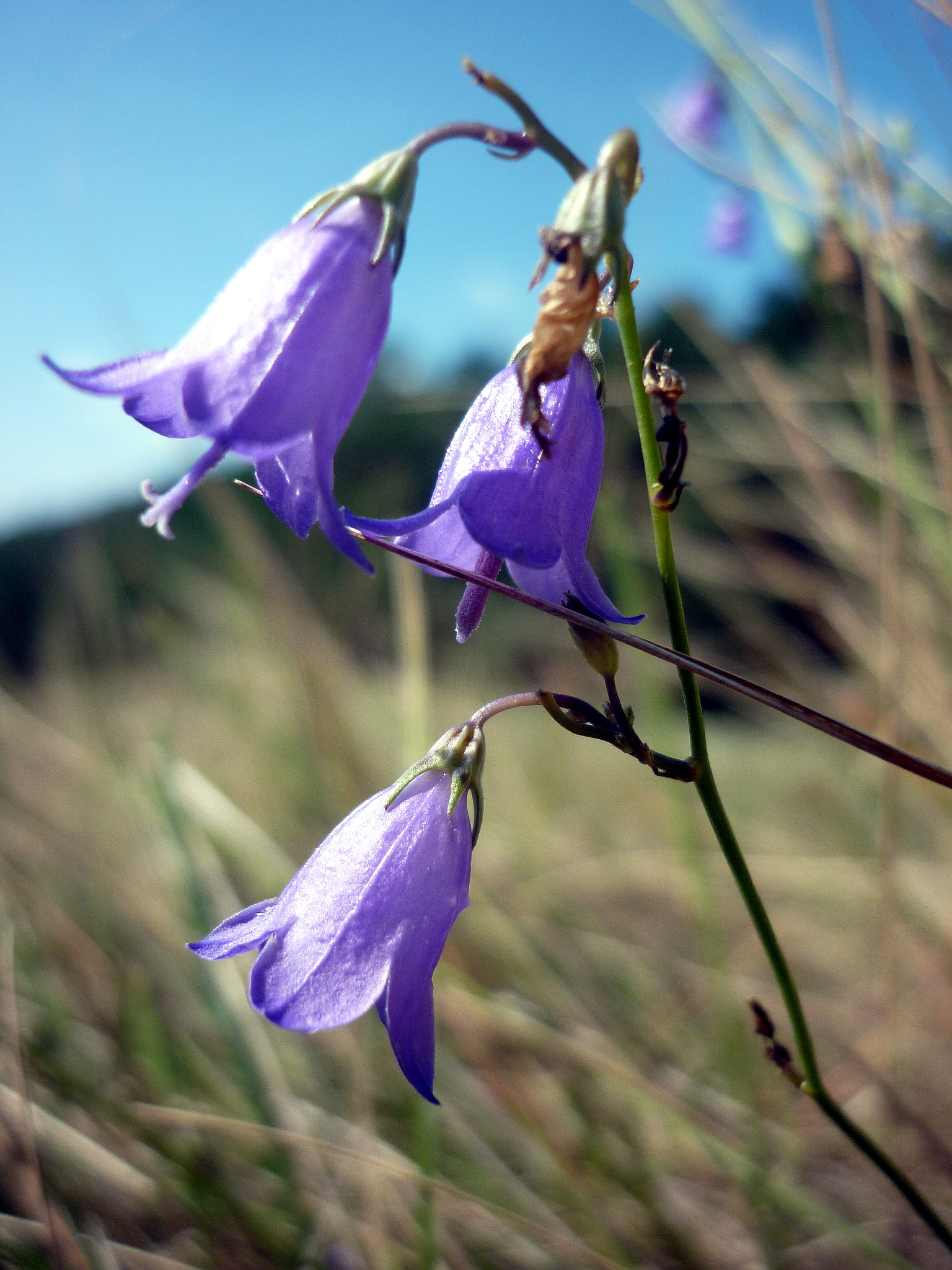 Campanula rotundifolia. In la Coma i la Pedra (Solsonès - Catalunya). To 1.170 m. altitude